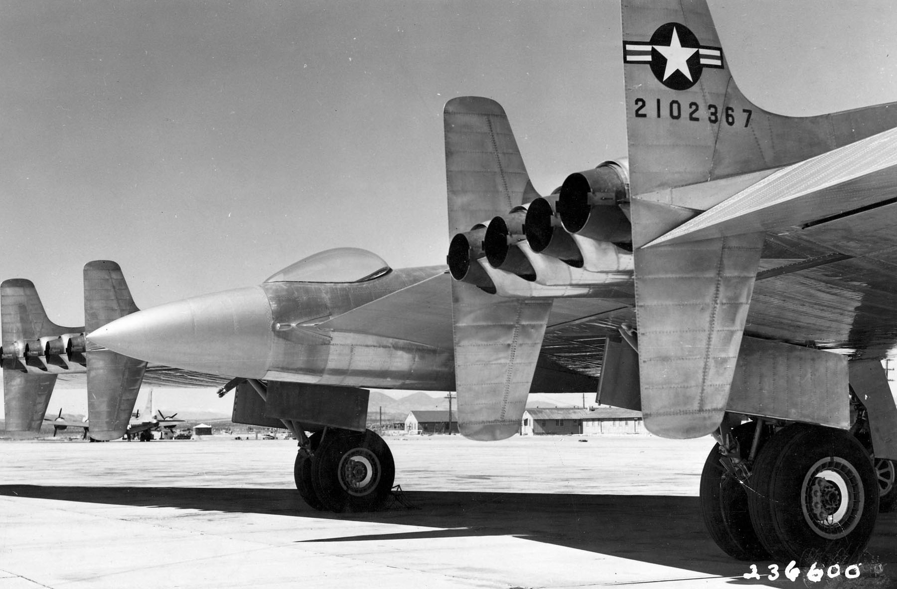 Northrop YB-49